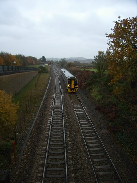 Penpergwm station A North-bound train passes the site of the former station.